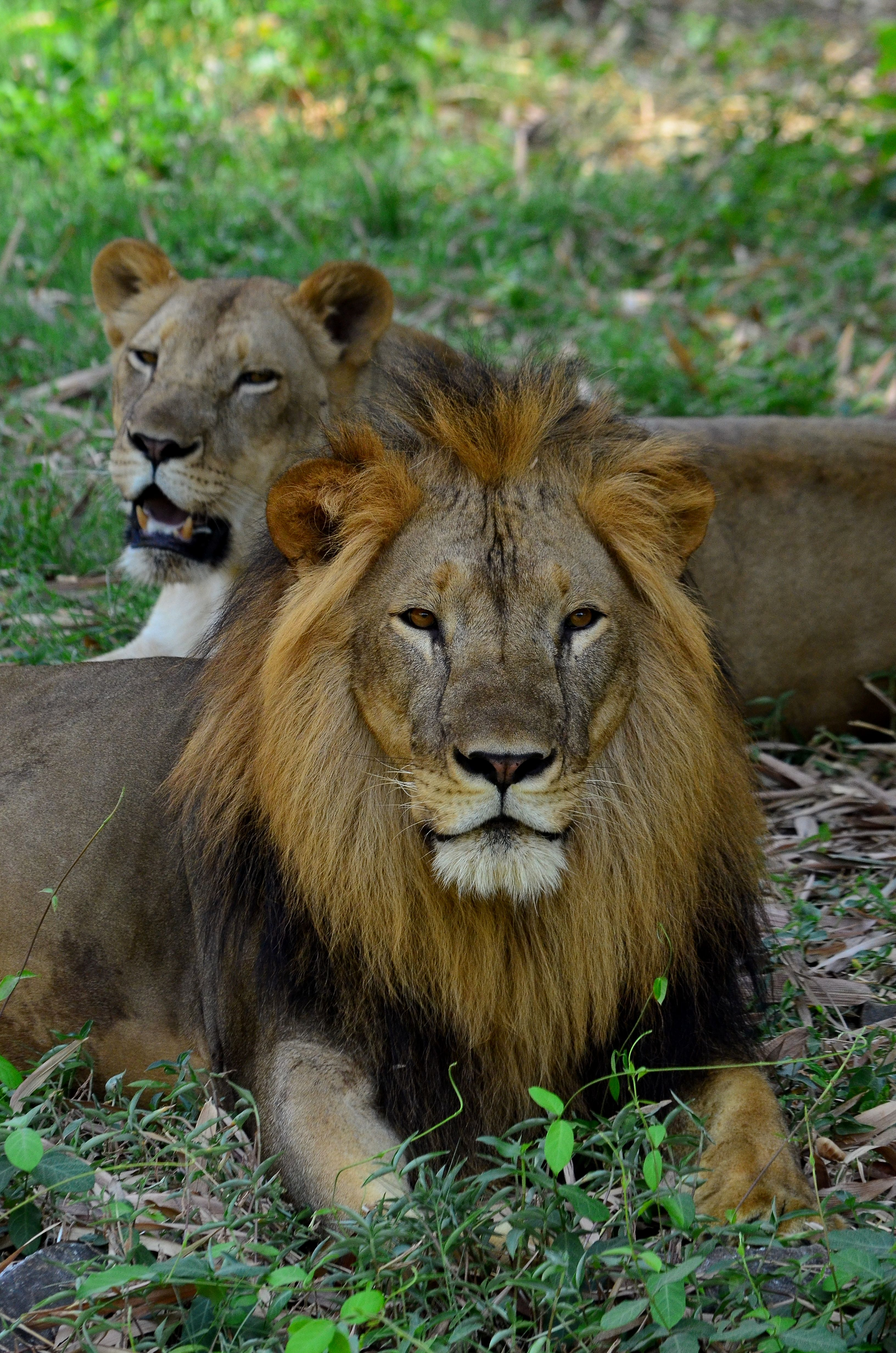 African Lion & Lioness Couple in Tata Steel Zoological Park,Jamshedpur,Jharkhand